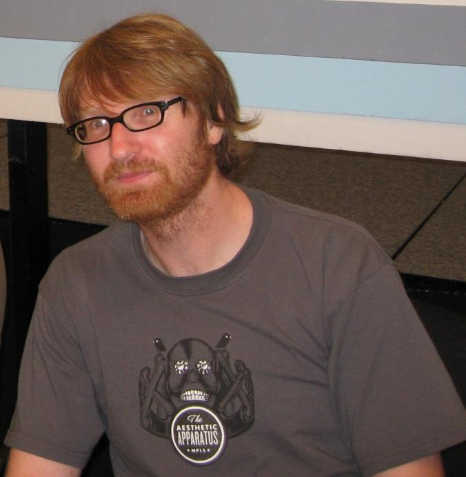 Chuck Klosterman at book signing. Taken by Jesse Crowley.